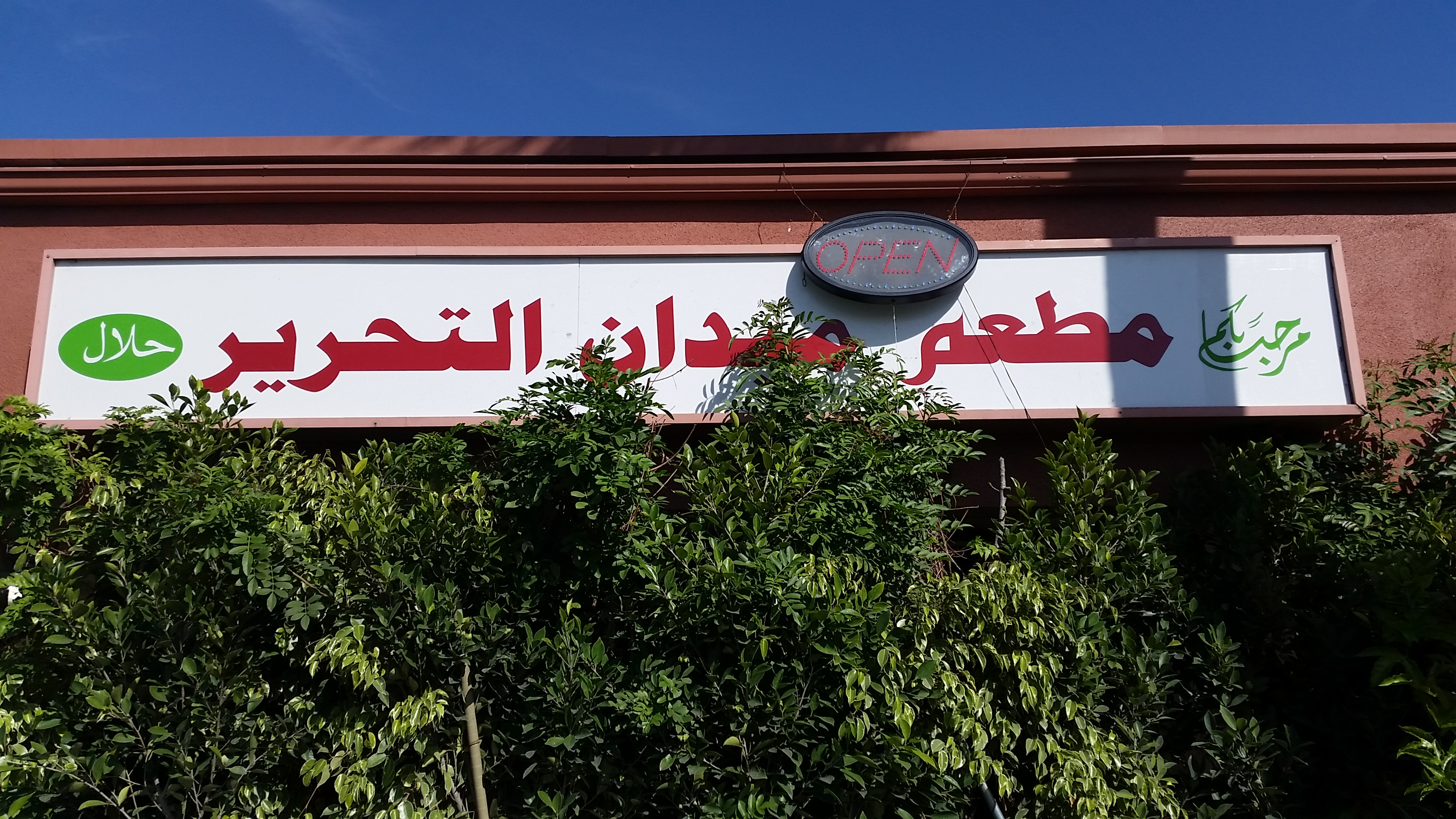 A photo taken in Anaheim, Los Angeles County, California for a halal restaurant.